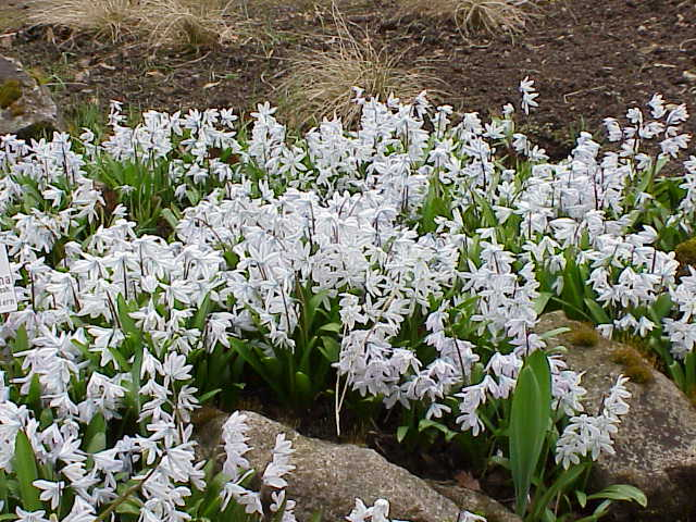 Species: Scilla mischtschenkoana Family: Hyacinthaceae Image No. 2